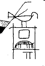 Rock drawing of the name Pen-abu from Qustu.